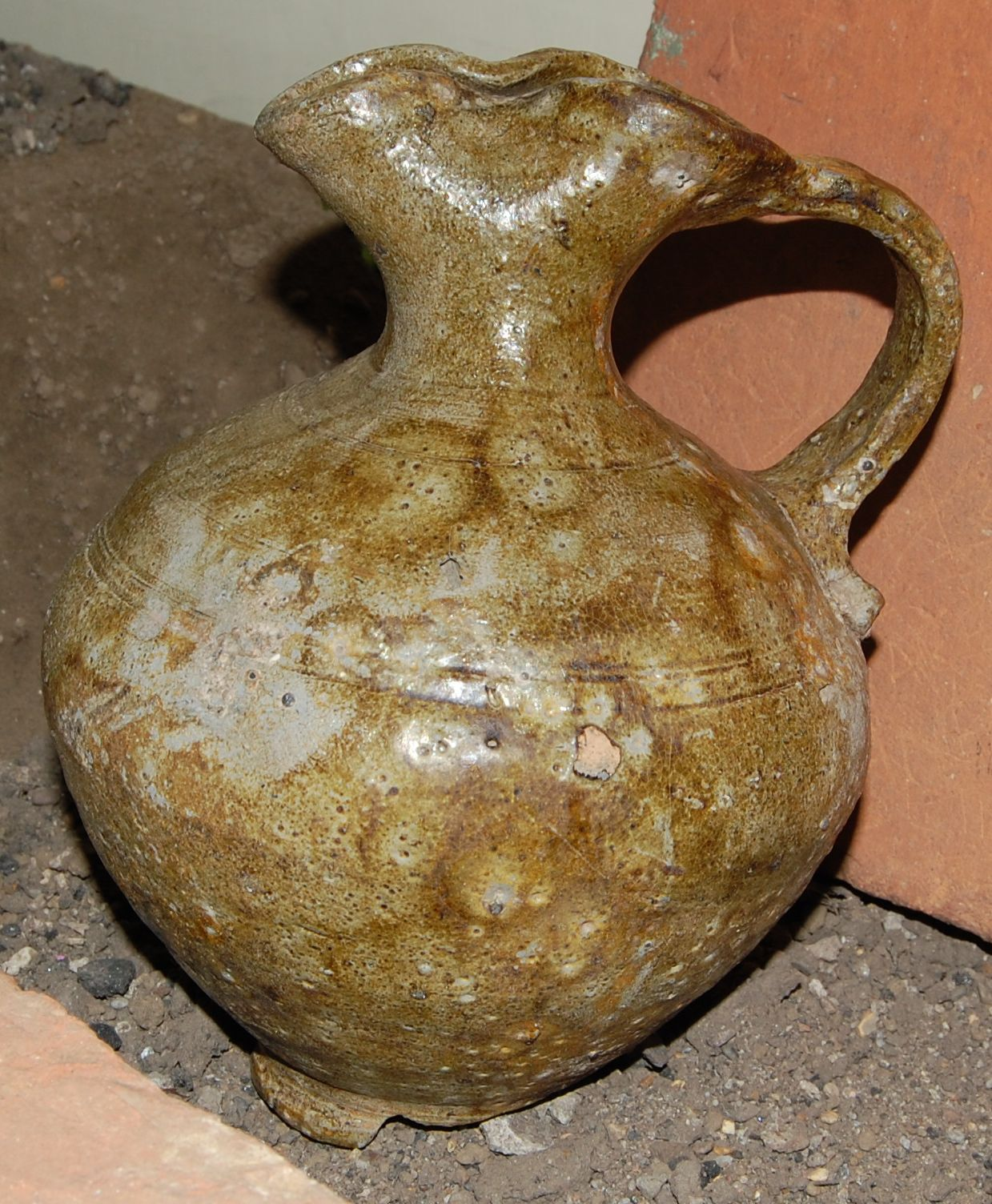 Roman-era green-glazed jug, made at Derby Racecourse kilns, now at Derby Museum and Art Gallery. The museum's exhibit label says "The glaze was produced with powdered lead ore". Taken during GLAMDerby Backstage Pass.